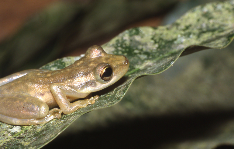 Scinax ruber